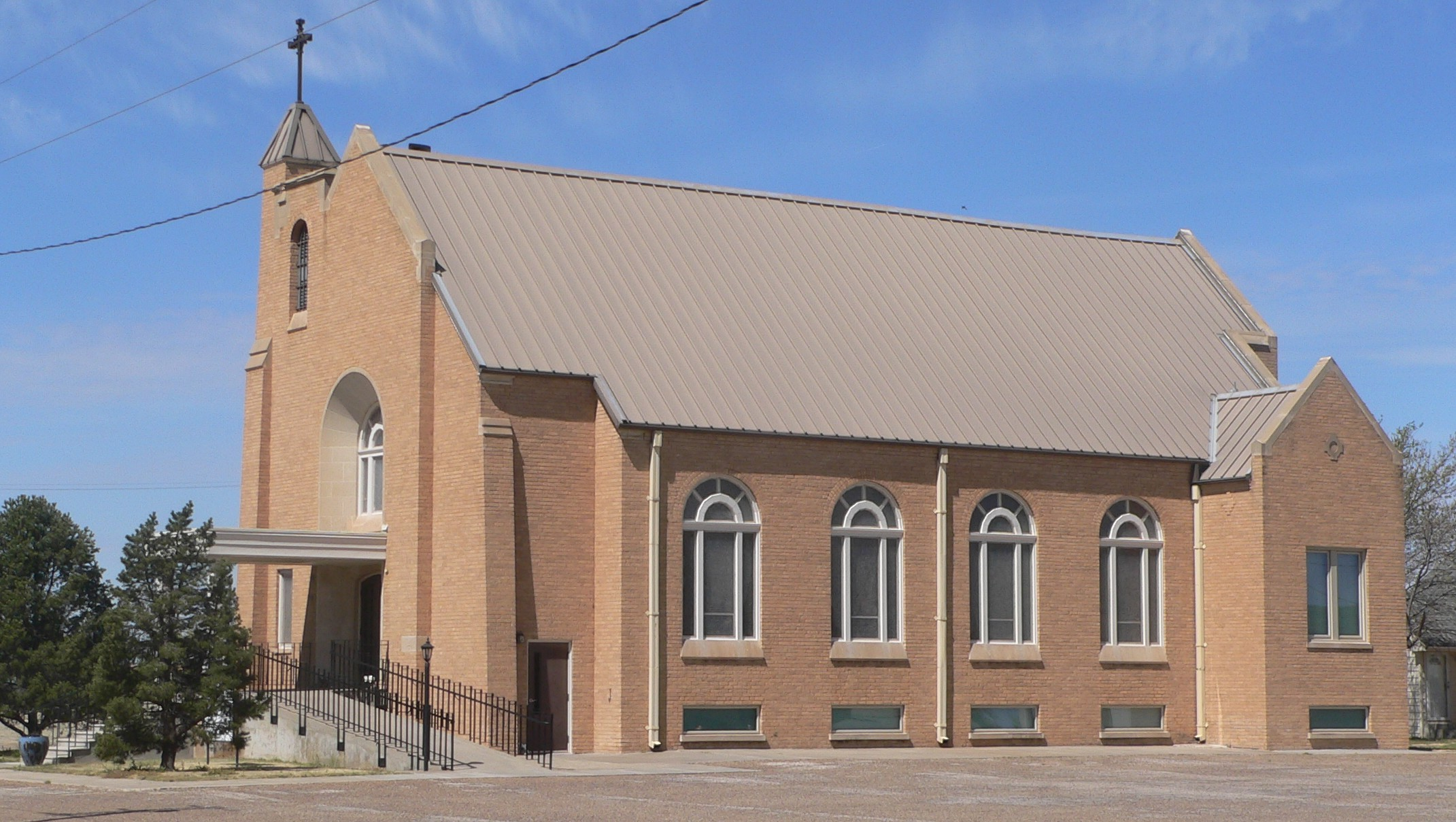 St. Mary's Catholic church, on the north side of Pondesetta Road in Umbarger, Texas; seen from the southeast.